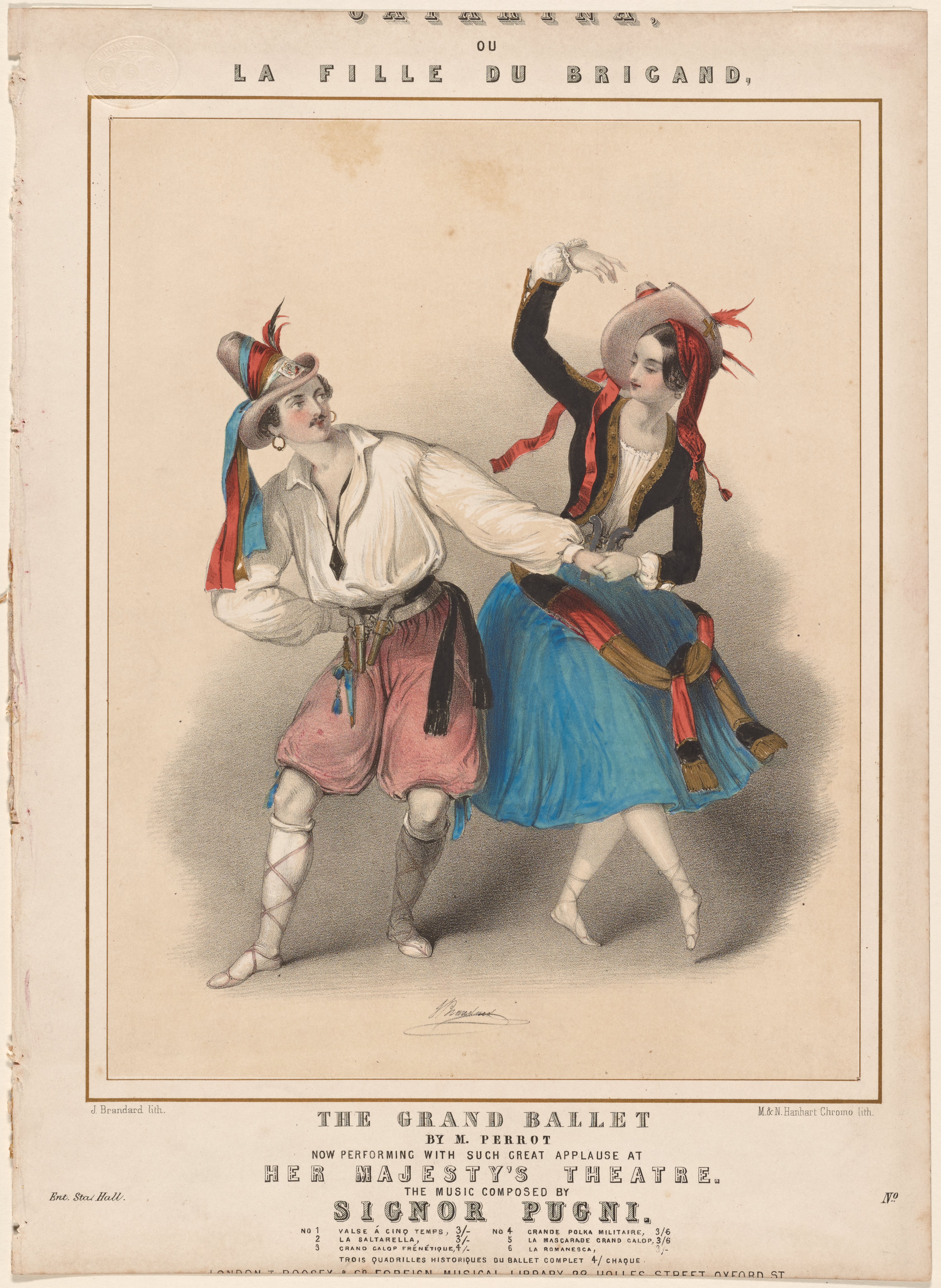 Purchased with funds from the Committee for the Jerome Robbins Dance Division.